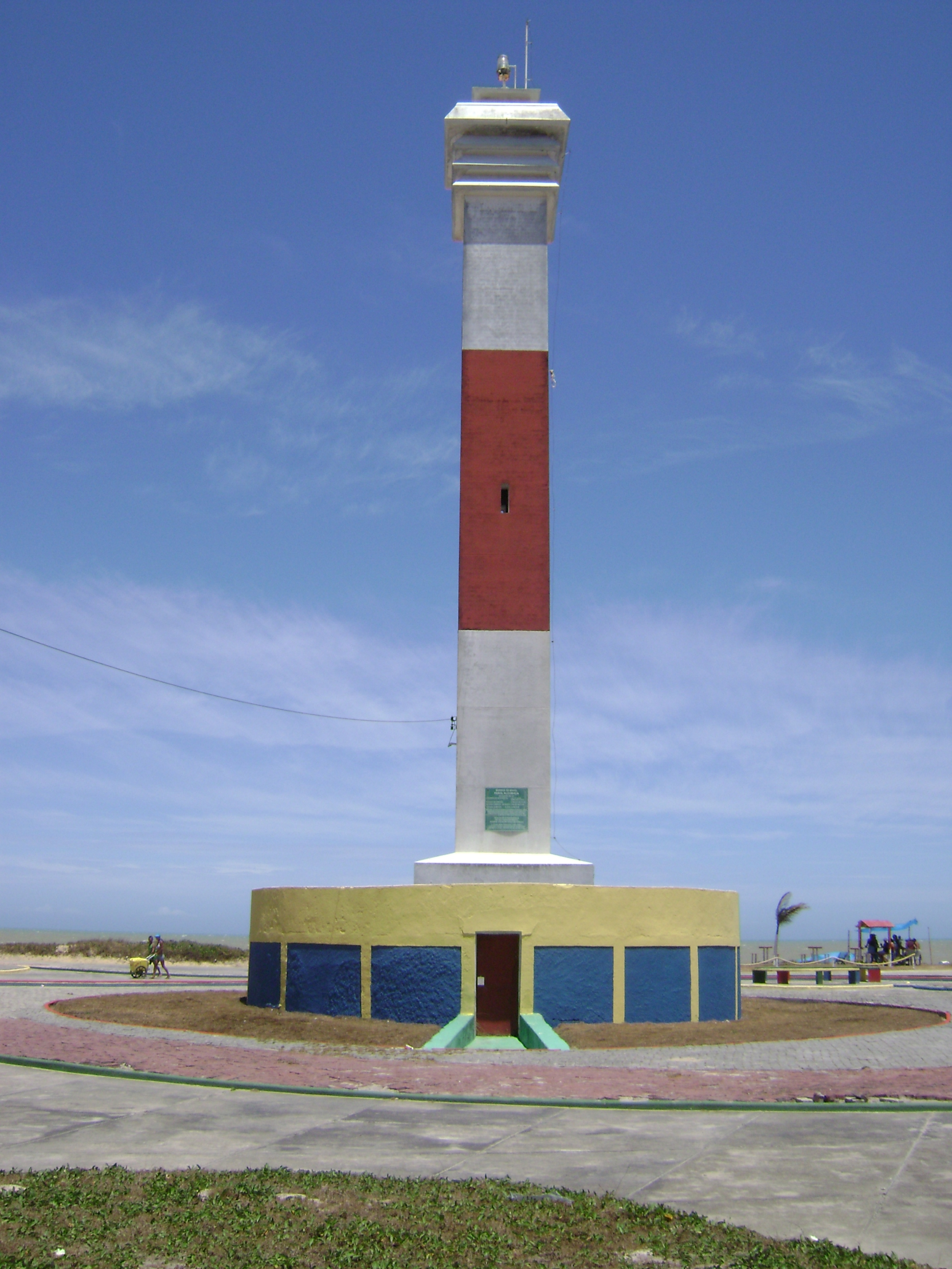 Lighthouse in Alcobaça, Bahia, Brazil.